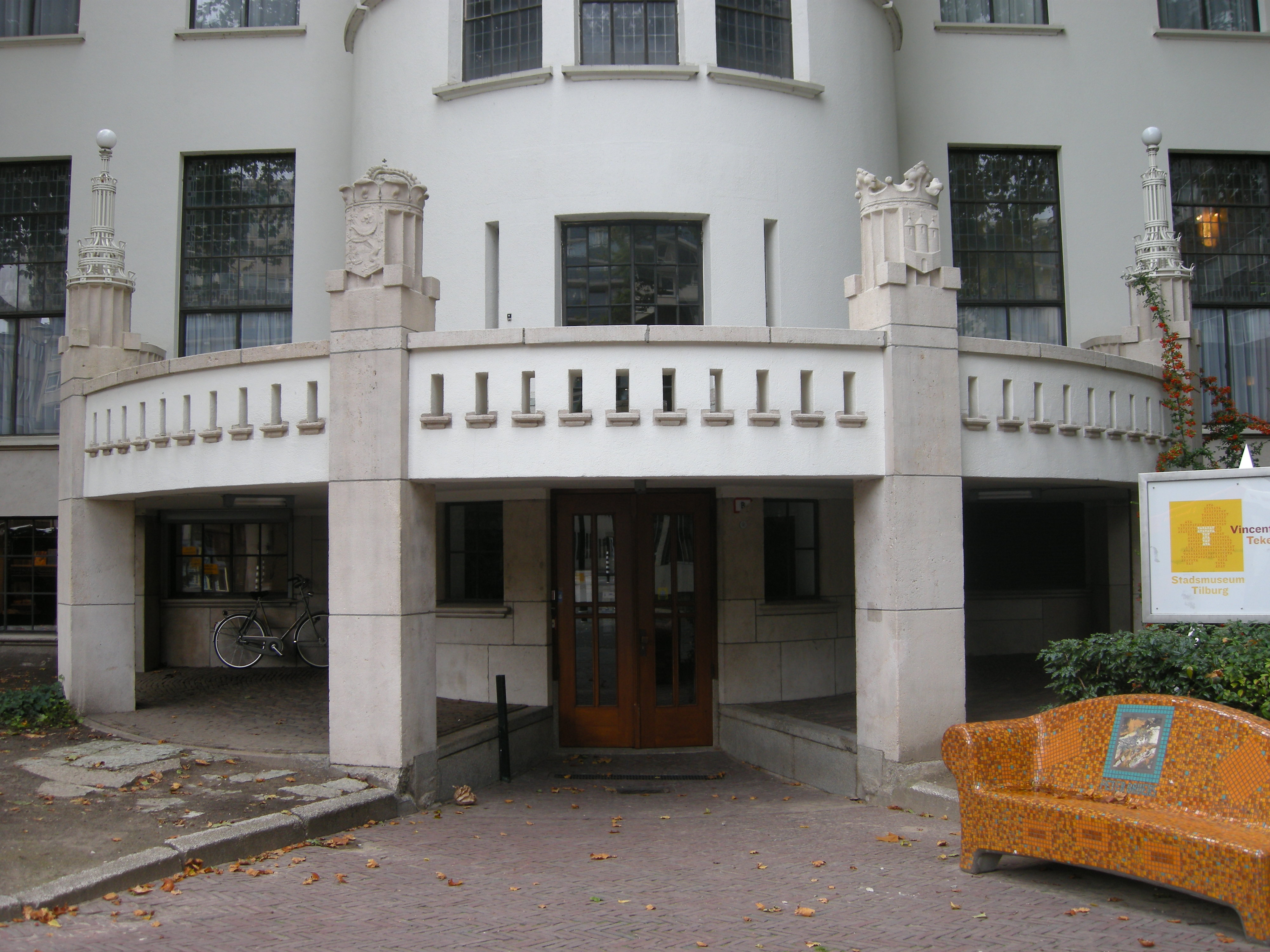 Back side of the town hall in Tilburg